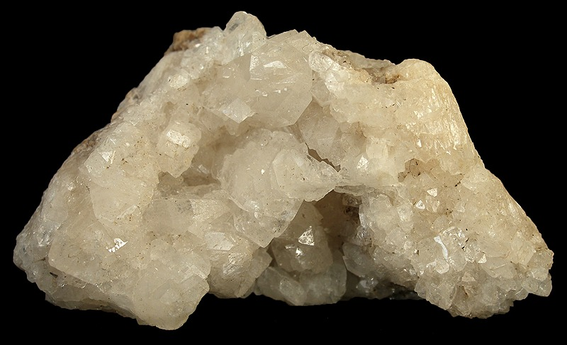 Szaibelyite Locality: Inder B deposit and salt dome, Atyrau (Gur'yev), Atyrau Oblysy (Atyrau Oblast'), Kazakhstan (Locality at ) Size: small cabinet, 5.7 x 3.5 x 3.4 cm Szaibelyite This is a magnesium borate species that does, apparently, come in good crystals. This is the first specimen of Szaibélyite I have seen. It is present as terminated large crystals to 1.2 cm, in a fine cluster of beautiful crystals. Ex. John White Collection.